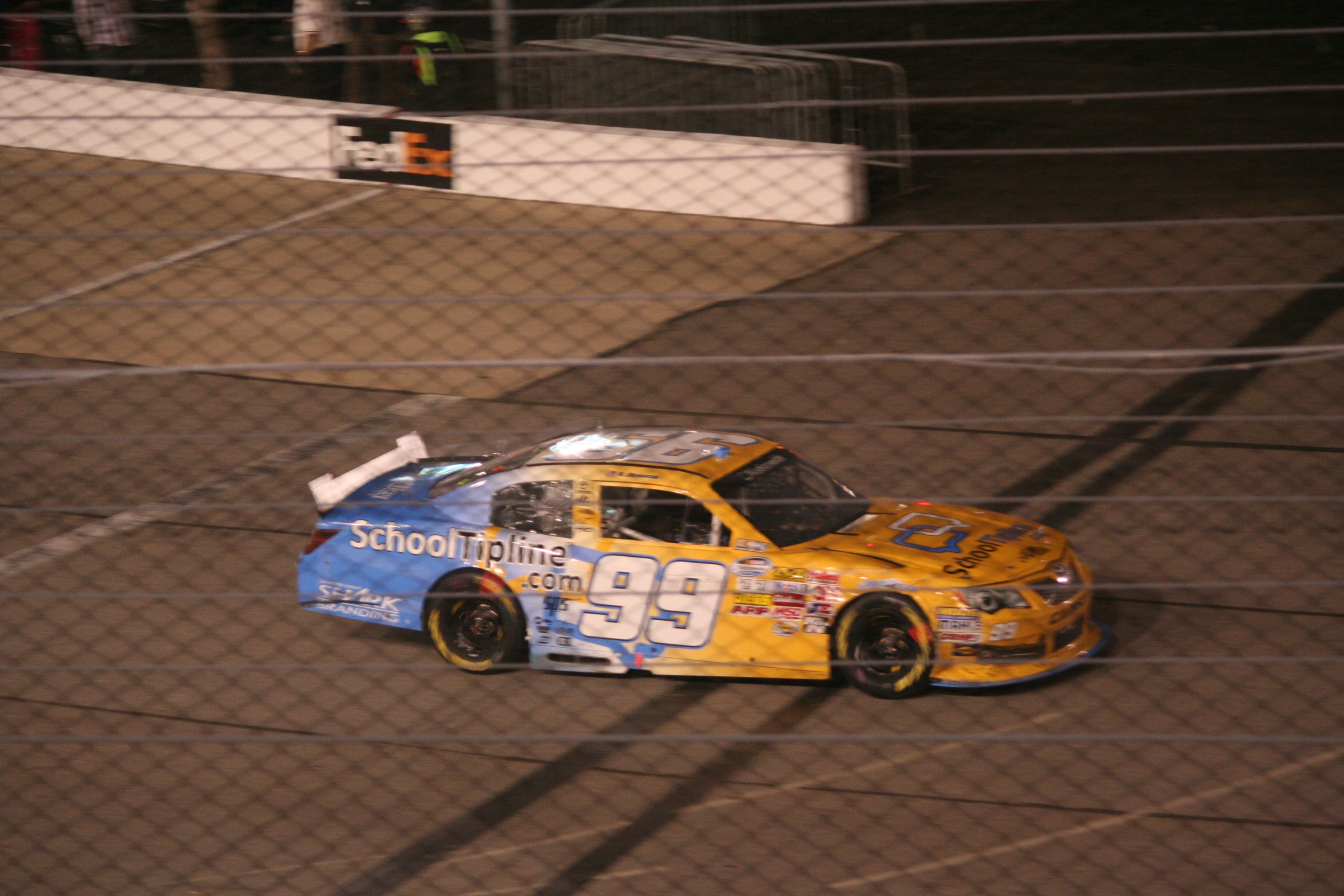 Alex Bowman exits pit road during the NASCAR Nationwide Series ToyotaCare 250 at Richmond International Raceway, April 26 2013.